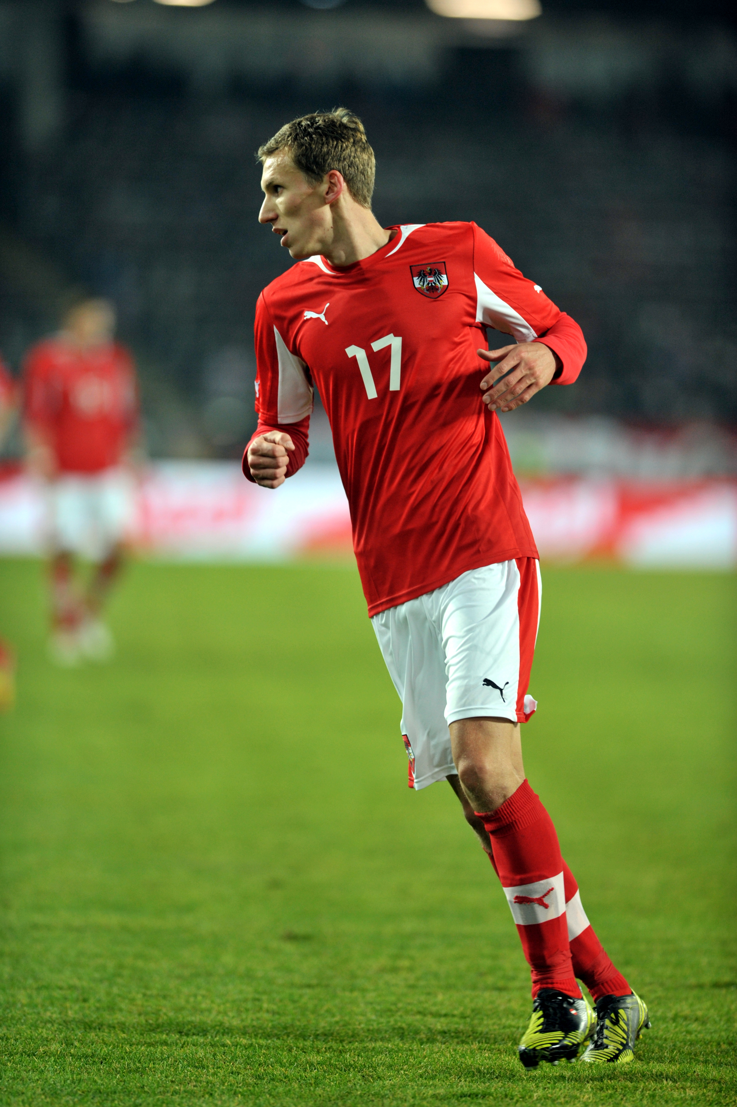 ÖFB freundschaftliches Länderspiel - Österreich vs Elfenbeinküste am 14. November 2012 The making of this work was supported by Wikimedia Austria. For other files made with the support of Wikimedia Austria, please see the category Supported by Wikimedia Österreich. 17: Florian Klein